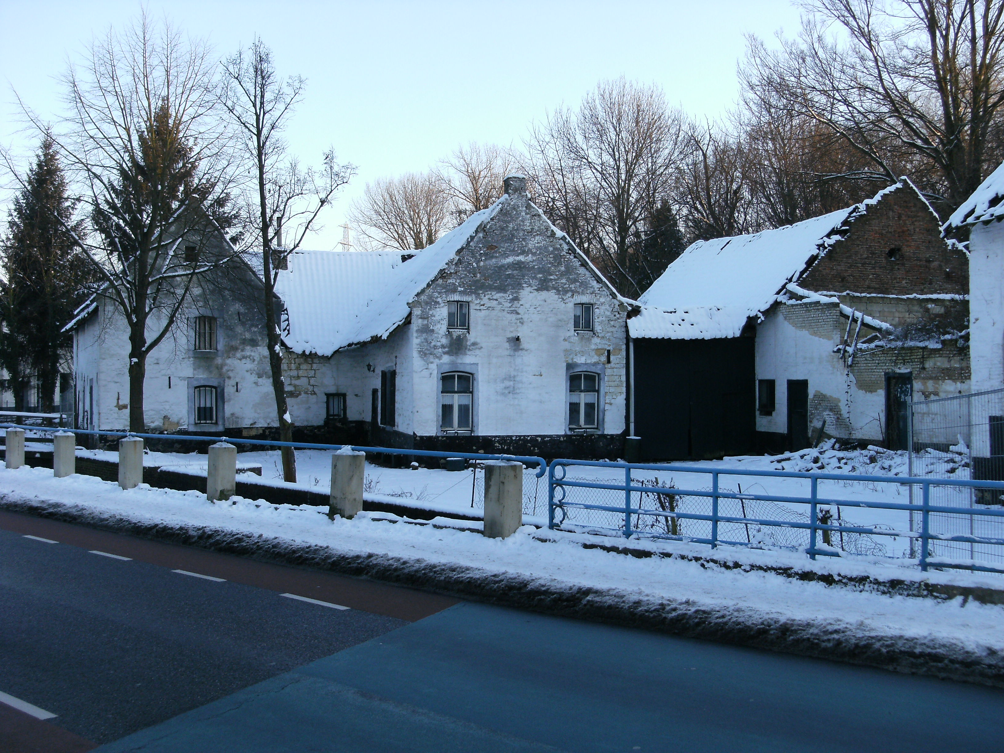 Decrepit farmhouse in Meerssen, Limburg, Netherlands, in winter, in snow.